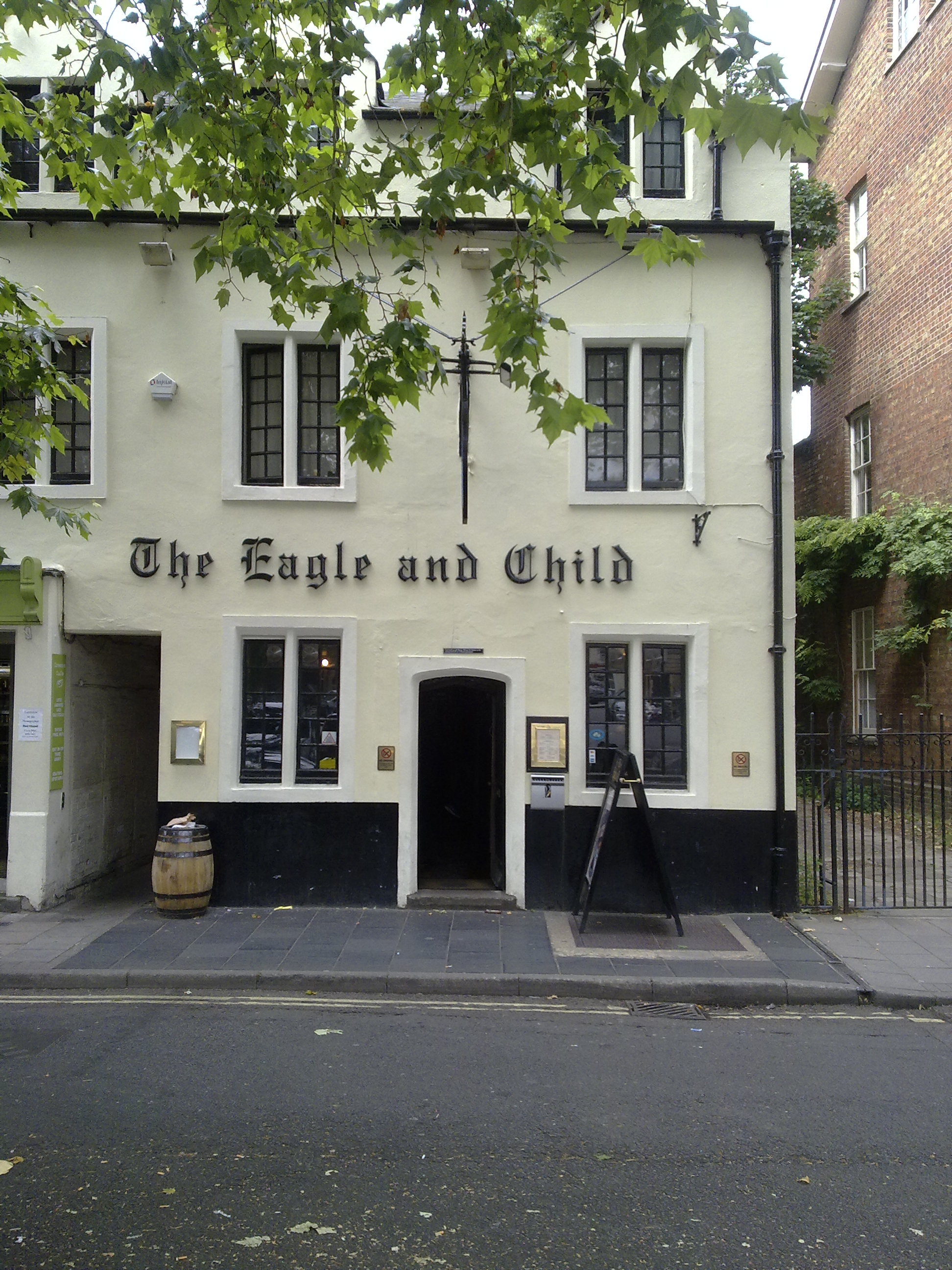 The Eagle and Child pub from St Giles Street.